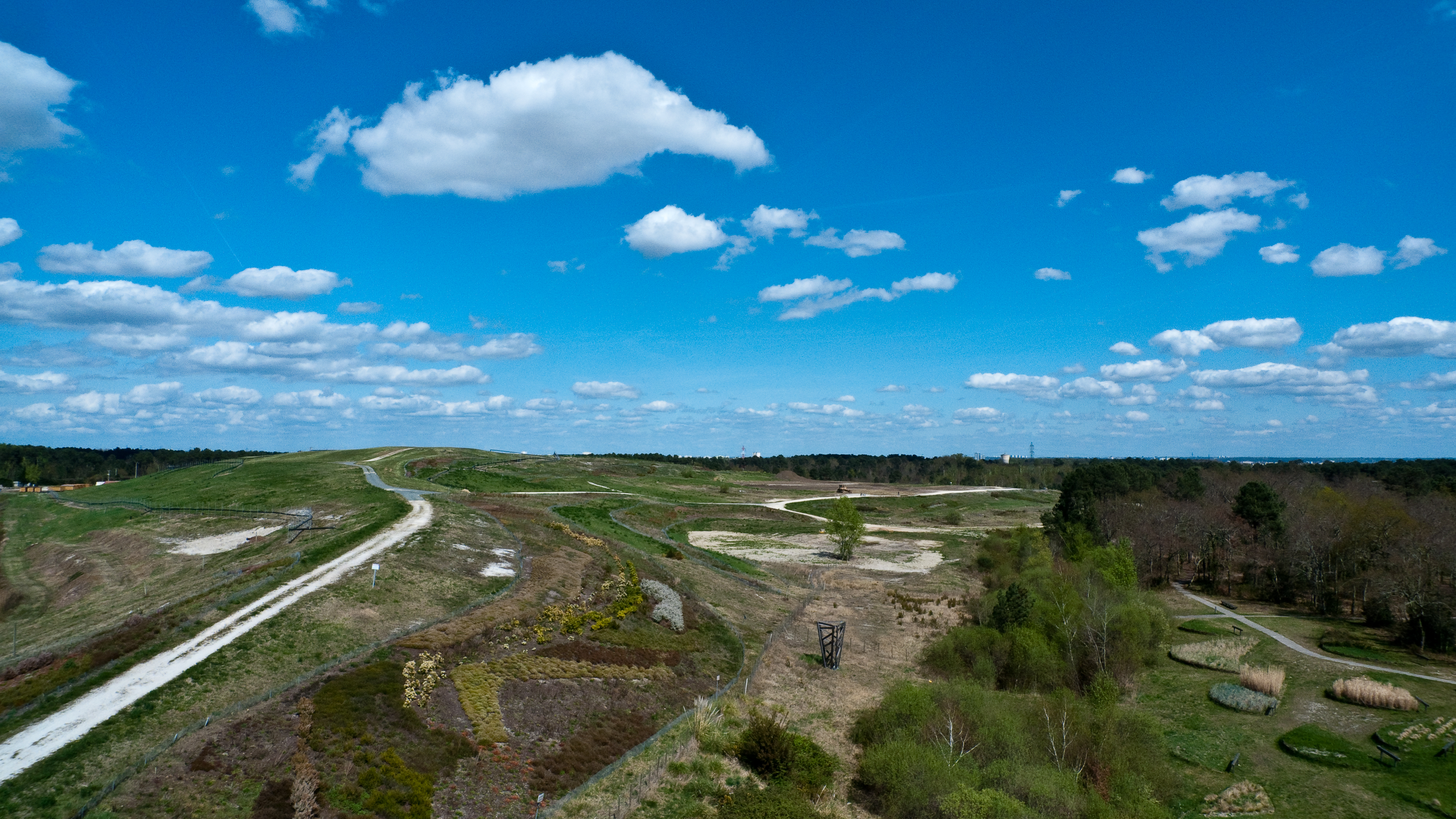 Bourgailh Park, Pessac (Gironde, France).